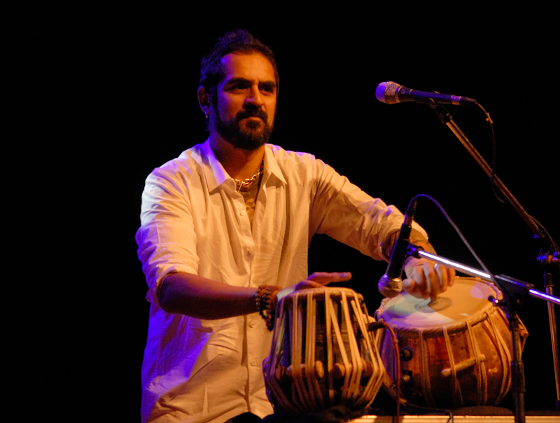 Karsh Kale performing live in Bangalore Palace Grounds